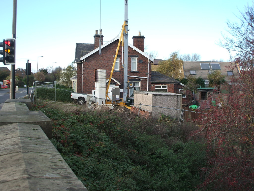 Staincross & Mapplewell railway station (site), YorkshireOpened in 1882 by the Barnsley Coal Railway, soon to be part of the Manchester Sheffield & Lincolnshire Railway, on the short line from Nostell to Stairfoot, near Barnsley. The station closed to passengers in 1930. View north west from the bridge over the railway. The entrance was a path leading down from road level into the cutting, starting just in front of the building. It is possible the building was the station-master's house - there were no other buildings in the vicinity on the 1892 map. How things have changed!